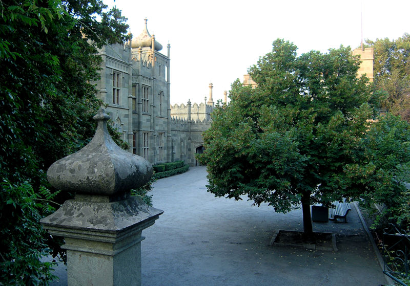 View of the Vorotsovsky Palace in Crimea, Ukraine.